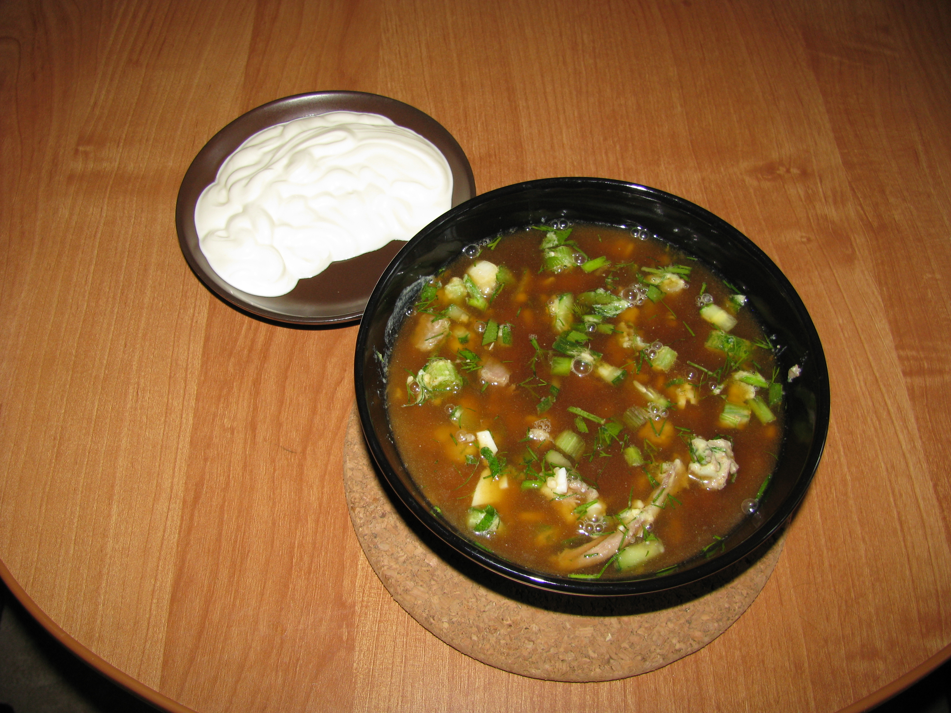 Okroshka 3